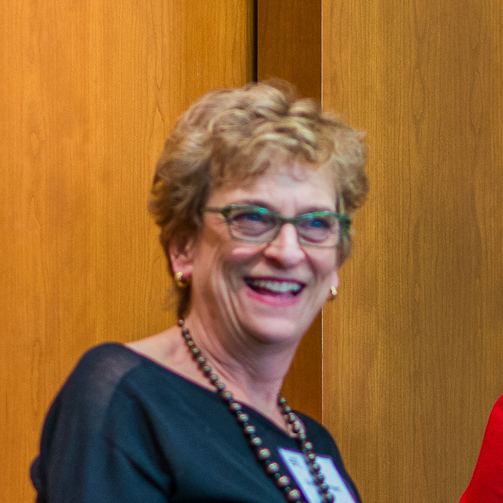 JWA Red Tent Event, May 9, 2018. Photo by Steve Osemwenkhae.